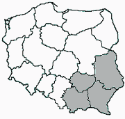 Polish III liga, Group 4: Lesser Poland, Lublin, Świętokrzyskie and Subcarpathia.